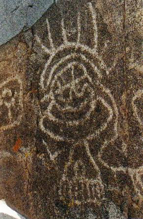 Between 8000 and 2500 BC, these bands occupy land hunter - gatherers, which moved from the coast in search of food. Gradually these groups reached a lifestyle more developed in regard to agriculture, especially maize, and associated hunting guanaco. Between 300 BC and 200 AD, burst into the valley agroalfareras populations originating in northwestern Argentina. These are from the first archaeological evidence of past Salamanca, as evidenced by the findings of the towns of San Agustín, Grove, Chillepín, Panguesillo, and Salamanca Chalinga same.